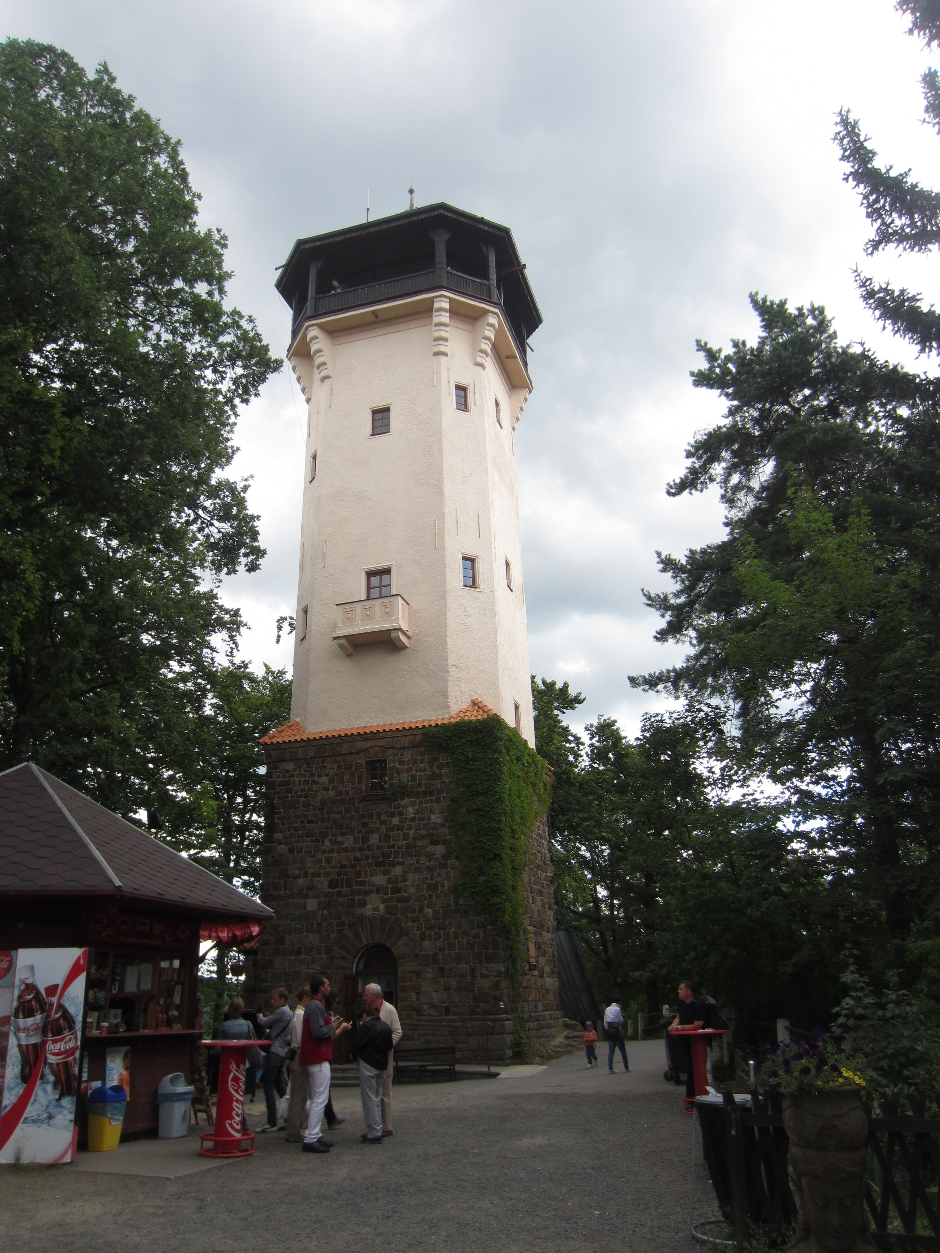 Rozhledna Diana (Karlovy Vary)